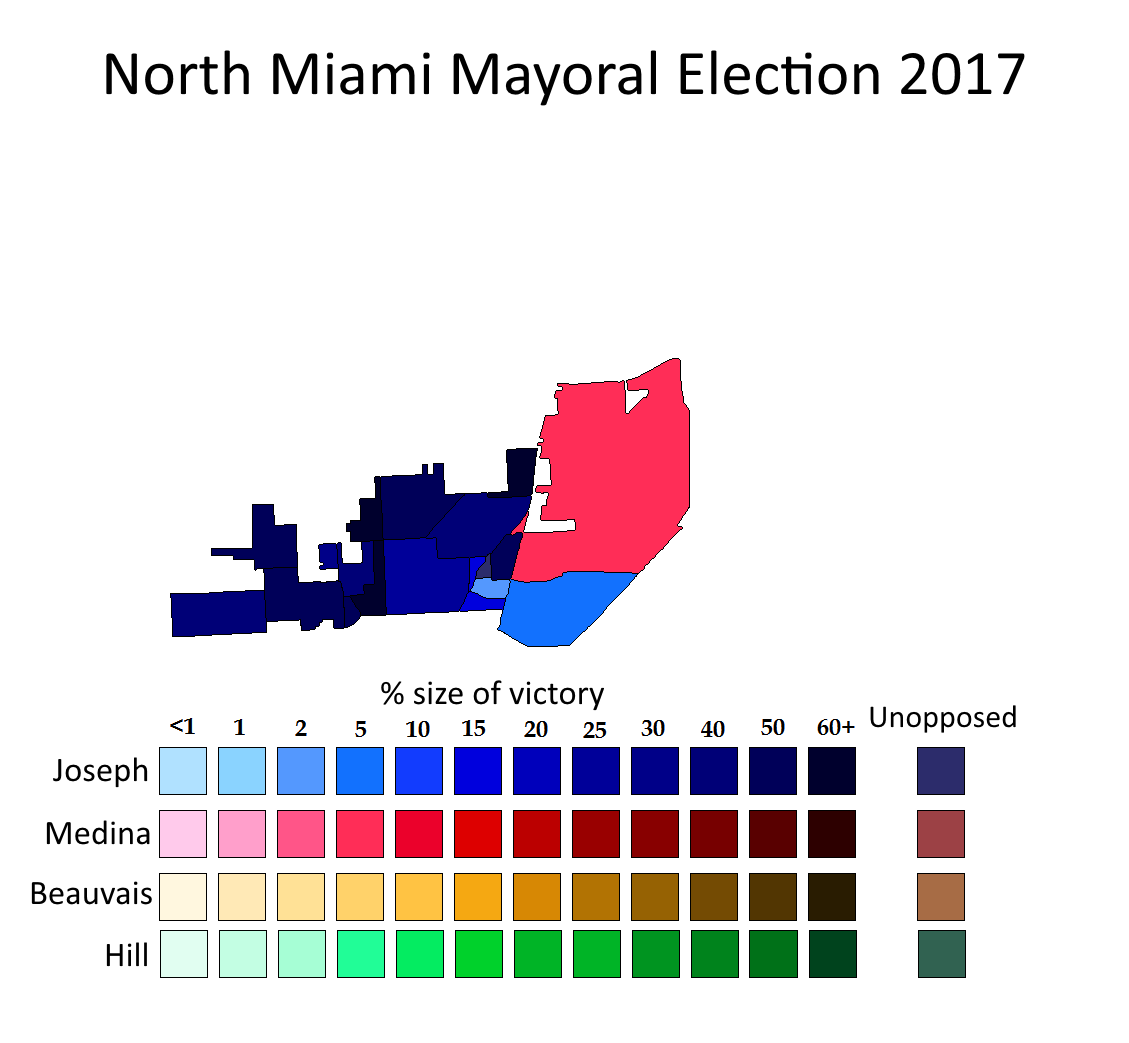 The North Miami mayoral election of 2017 with percent margins.